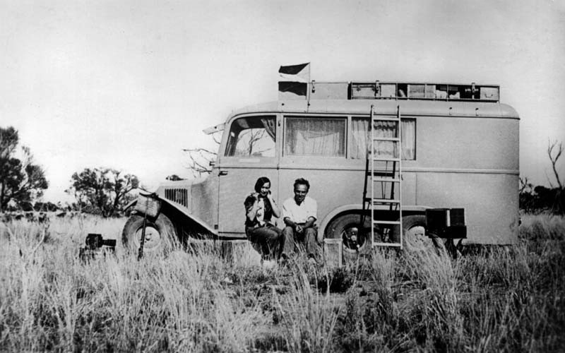 Tatra T72 caravan.